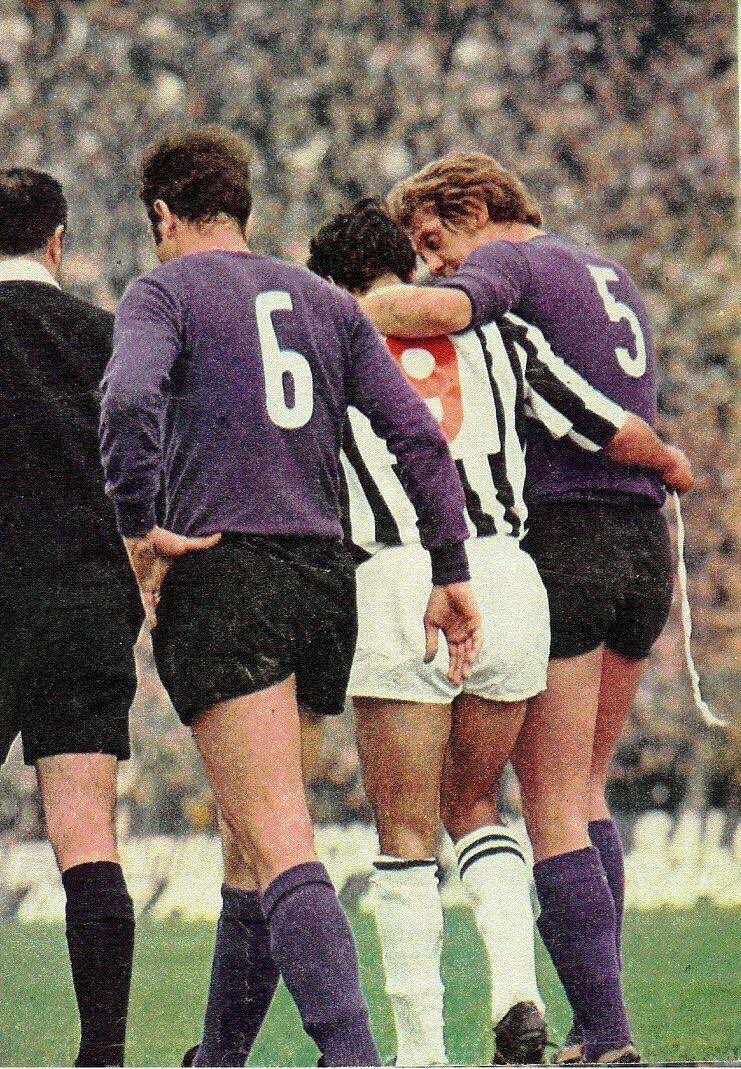 Florence, Communal Stadium, March 22, 1970. Fiorentina's defender Ugo Ferrante (no. 5) consoles Juventus' forward Pietro Anastasi (no. 9) at the end of the Viola's home victory versus Bianconeri (2-0), valid for the 25th round of the Italian Championship 1969–70 Serie A; alongside them, the other Viola Giuseppe Brizi (no. 6).